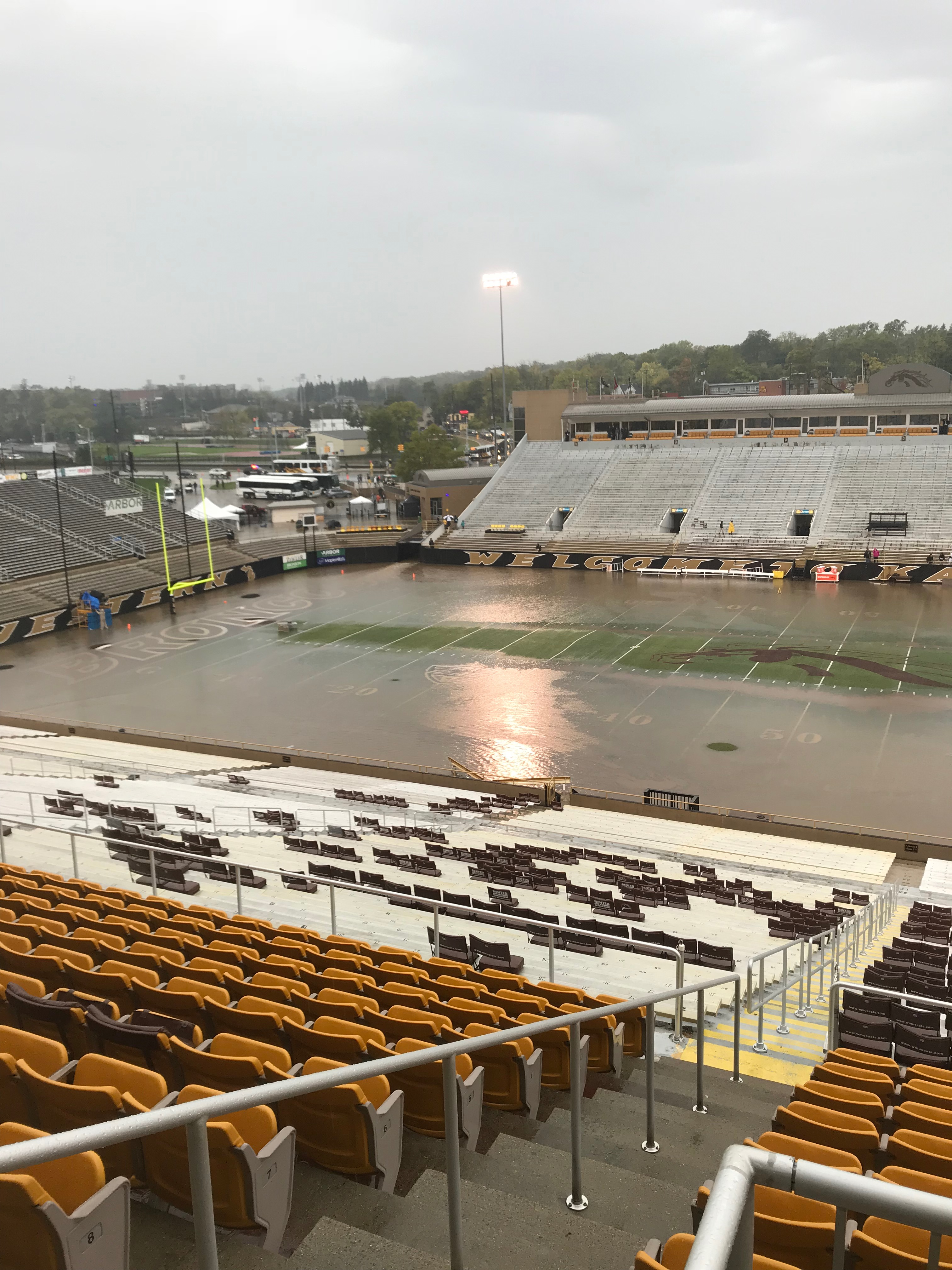 Heavy rains and a drainage failure results in the flooding of Waldo Stadium on the afternoon of October 14th, 2017.